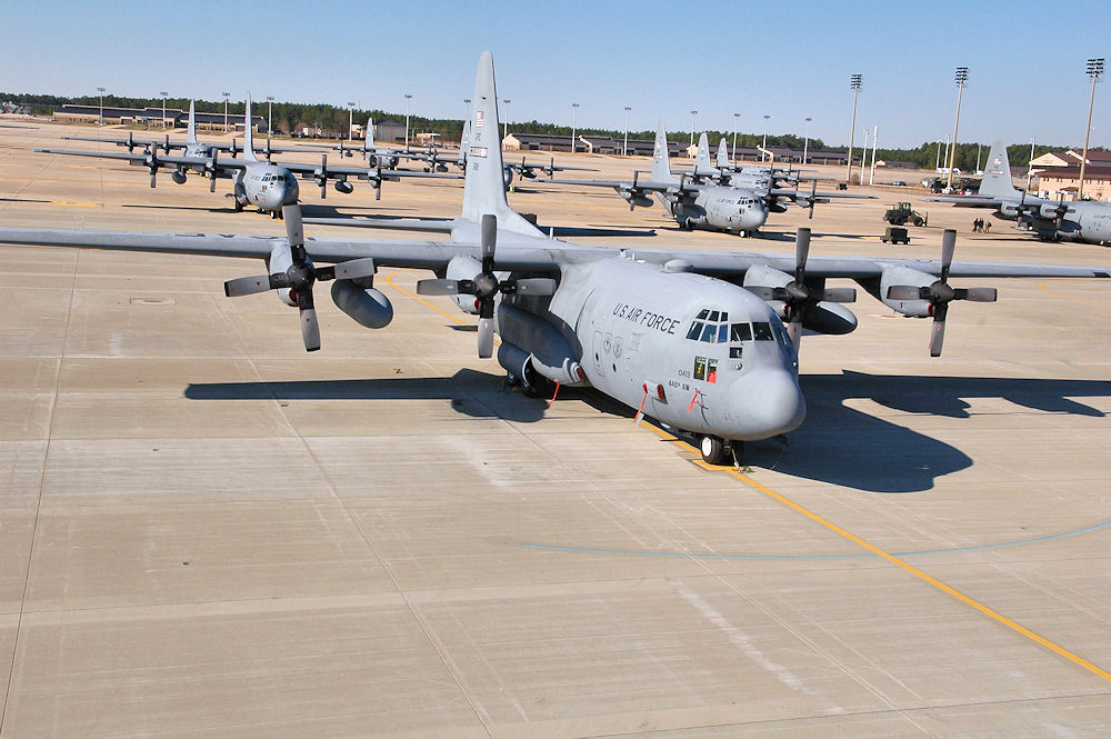 Tailgating at Pope Ramp fills up as 11 of 16 aircraft now assigned to the 440th Airlift Wing at Pope Air Force Base, N.C.; Five additional planes due to arrive soon as the wing moves closer to full active association unit where active duty and Reserve personnel work side by side. (U.S. Air Force Photo/Lt. Col. Ann Knabe)